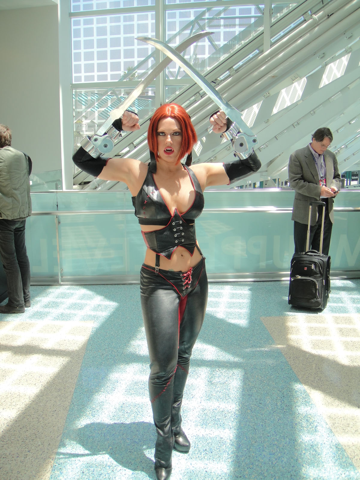 photo 2011 taken by Doug Kline If you're interested in higher resolution versions of my images, contact me via my profile page.